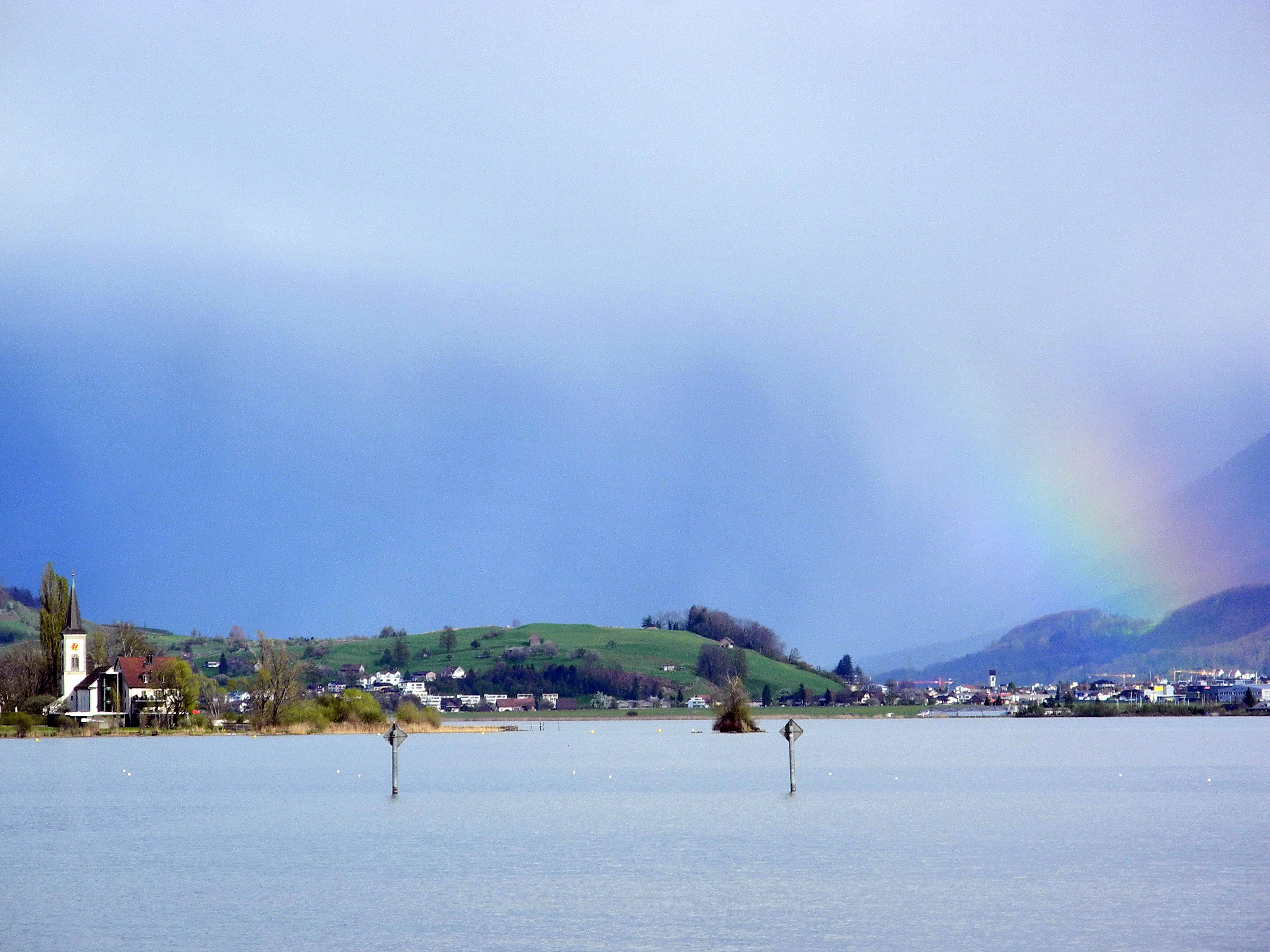 Obersee (upper Lake Zurich) and St. Martin Busskirch, as seen from Holzbrücke (wooden bridge) in Rapperswil (Switzerland), Buechberg in the background.